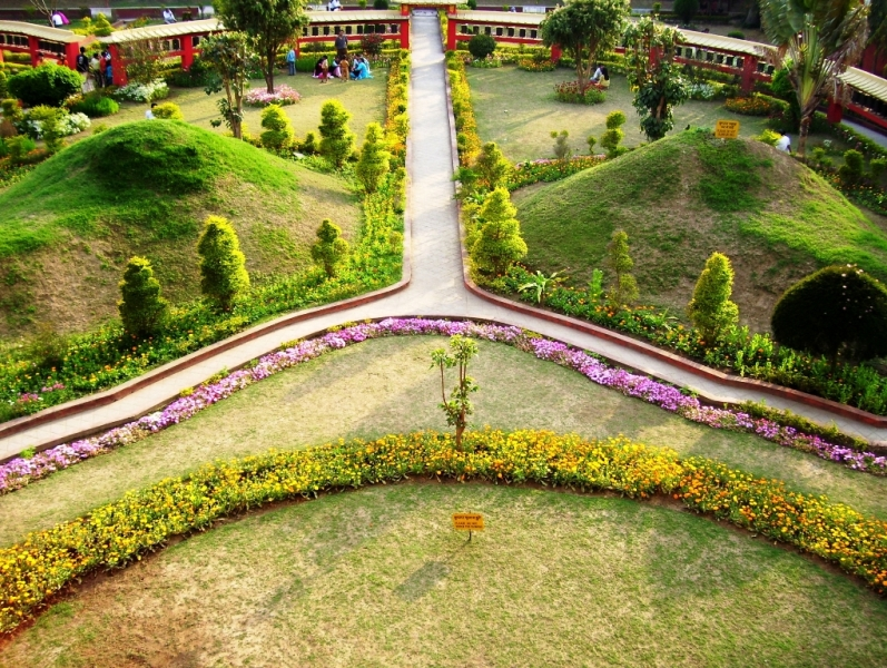 This is the park at the Buddha monastery, Dehradun, a popular spot where people come to enjoy the lush green environment and relax.